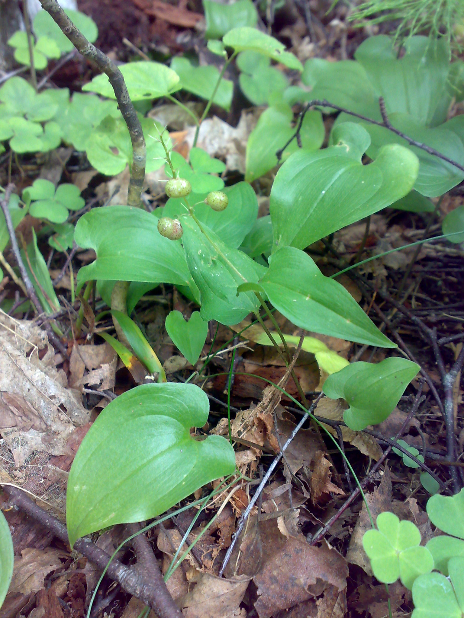 Maianthemum bifolium in Holtnesdalen Nature Reserve, Hurum (Norway)